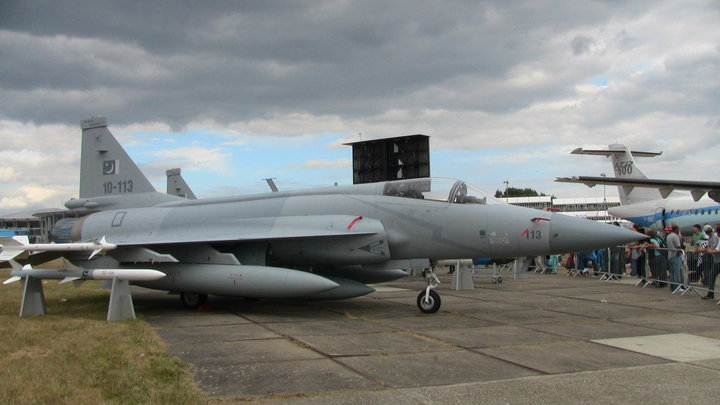 JF-17 Thunder at Farnborough Airshow 2010